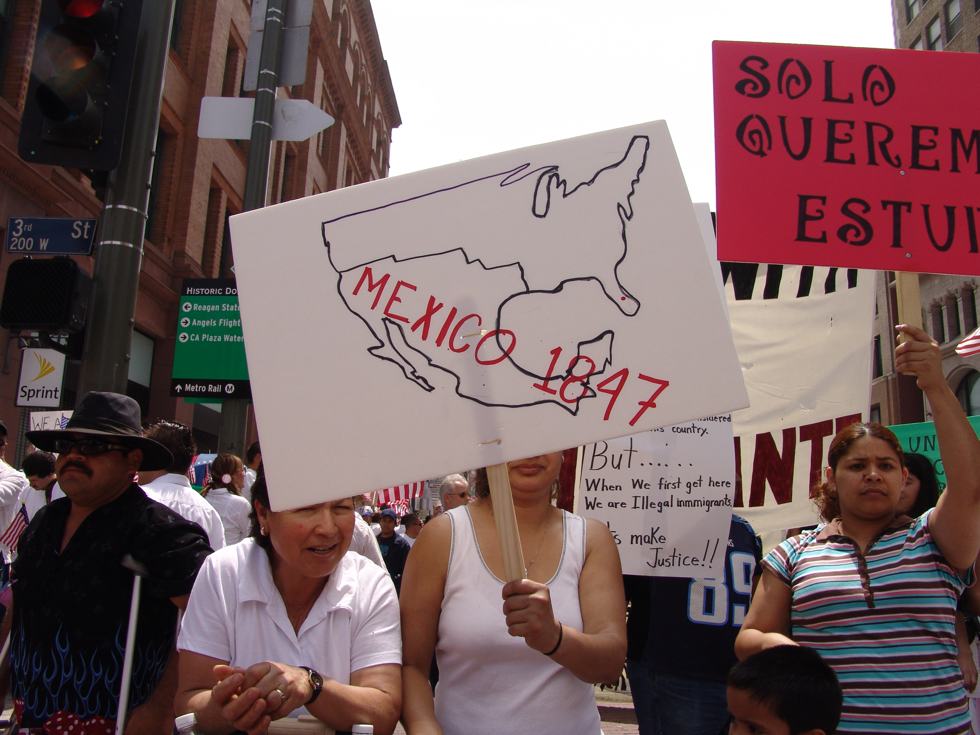 Illegal immigrant rights march for amnesty in downtown Los Angeles, California on May Day, 2006.